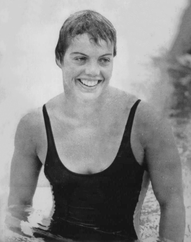 1973 Press Photo Lynn Colella in the 200 Meter Butterfly